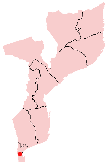 Matola, Mozambique: Location Map, created with the GIMP